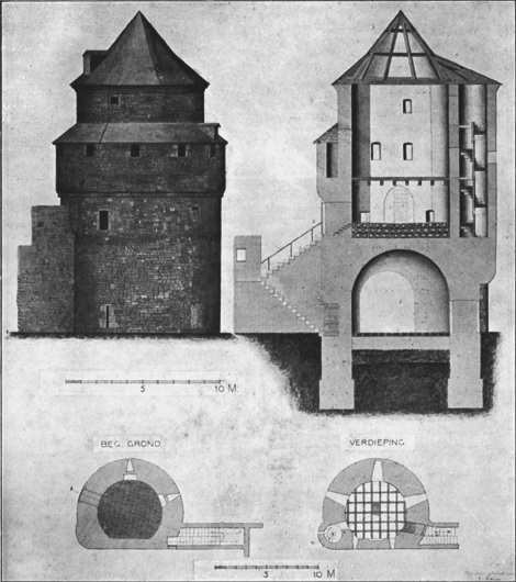 Maastricht, the Netherlands. View of Wycker Kruittoren (Wyck Gunpowder Tower), shortly before the tower was demolished in 1868.